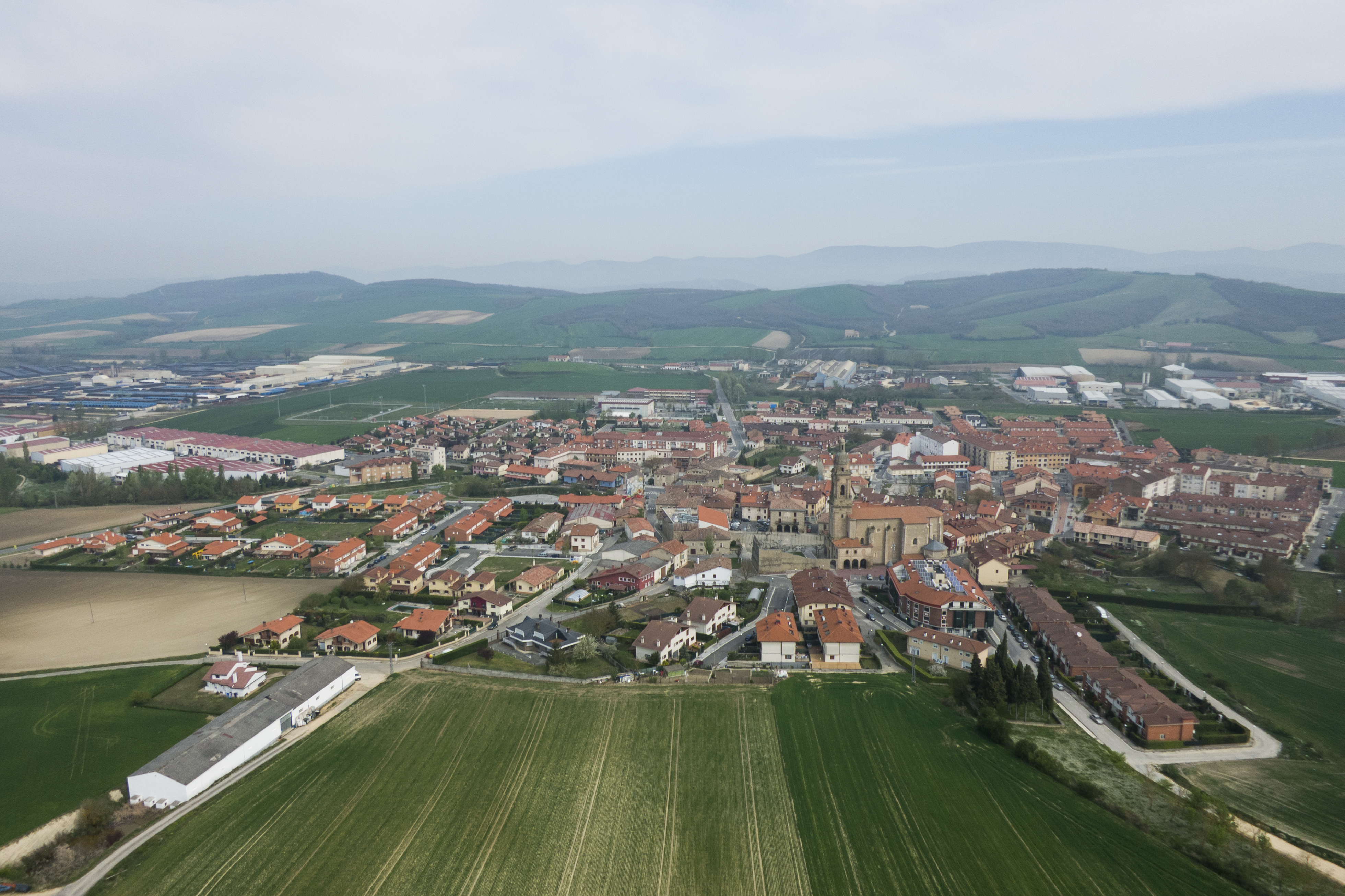 Alegría-Dulantzi, Araba, Basque Country